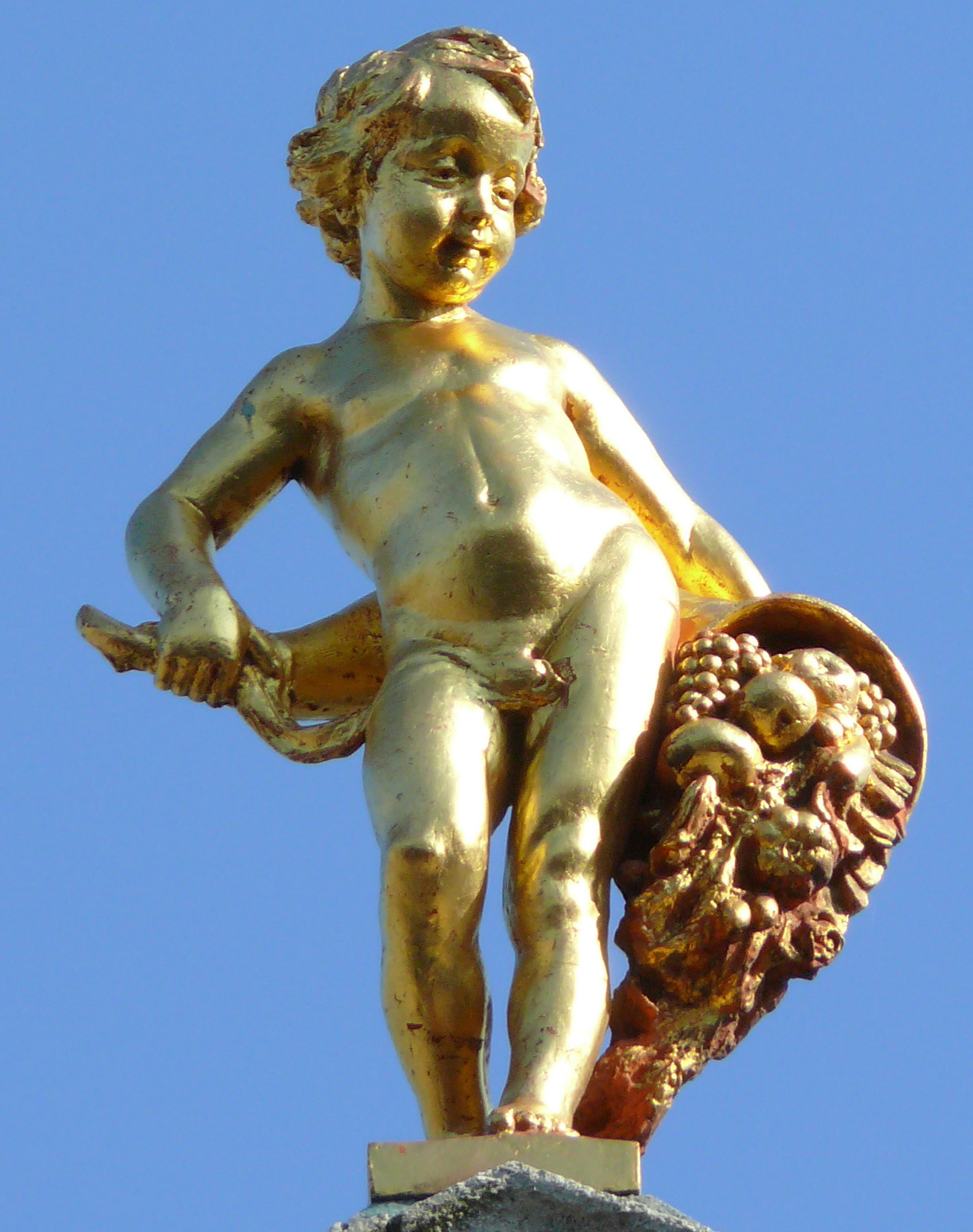 Golden statuette on top of one of the houses at the Great Square in Antwerp. The boy is holding a cornucopia. The cornucopia (Latin: Cornu Copiae) is a symbol of food and abundance dating back to the 5th century BC, also referred to as horn of plenty, Horn of Amalthea, and harvest cone. In Greek mythology, Amalthea was a goat who raised Zeus on her breast milk. When her horn was accidentally broken off by Zeus while playing together, this changed Amalthea into a unicorn. The god Zeus, in remorse, gave her back her horn. The horn then had supernatural powers which would give the person in possession of it whatever they wished for. This gave rise to the legend of the cornucopia.